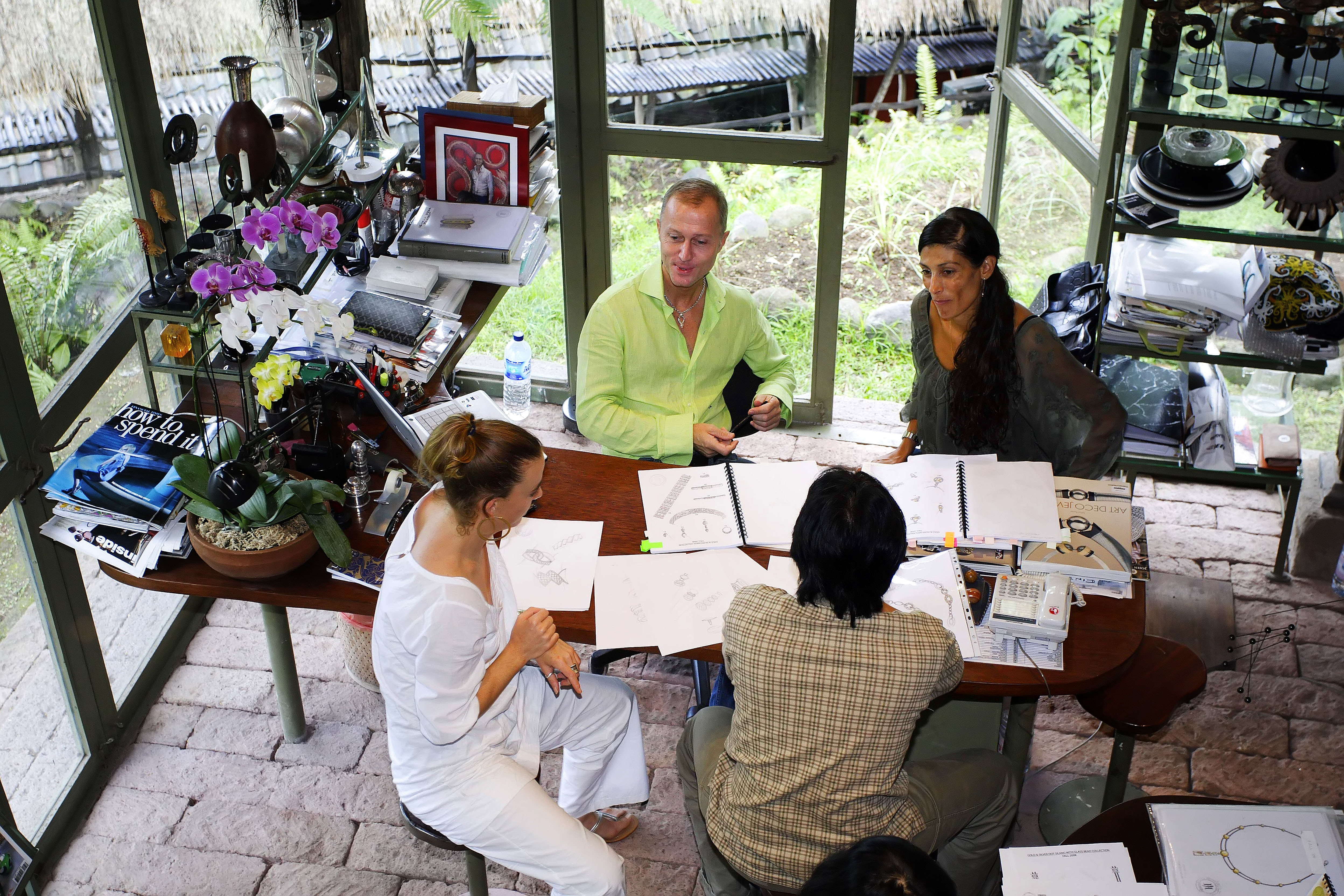 Design Center at John Hardy Compound in Mambal, Bali.